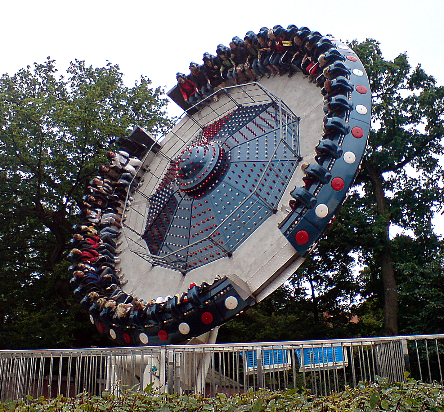 The amusement ride "Tornado" at Liseberg